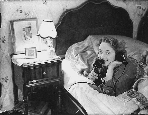 Marlene Dietrich phones her daughter in Berlin from Hollywood